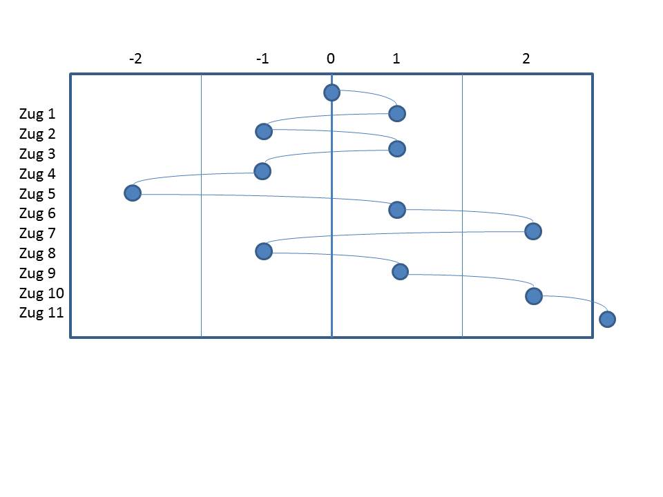 Tennis (pencil game) - a possible game, see table